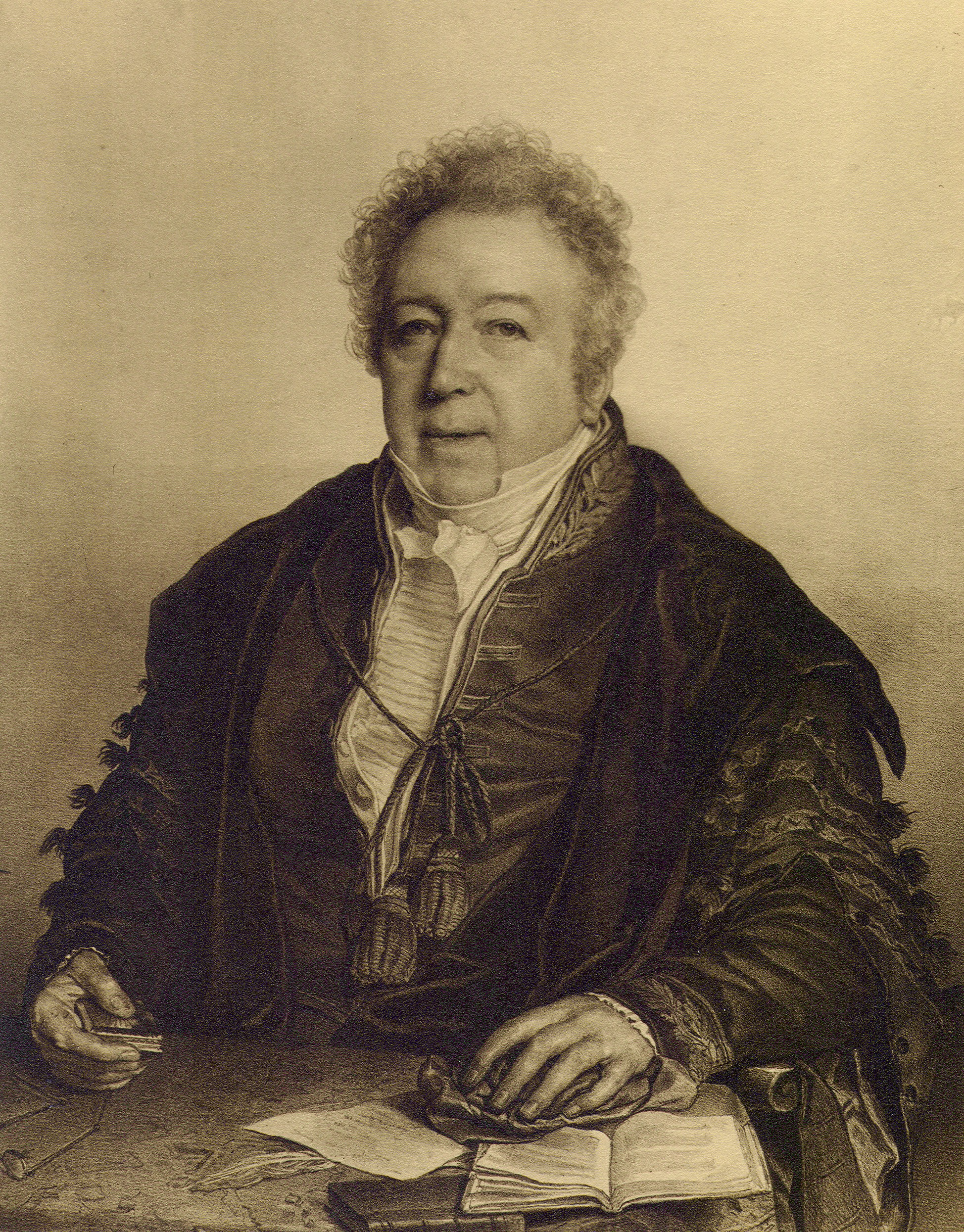 Portrait of Joseph-François Kluyskens (1771-1843), professor at the Medical Faculty and rector of Ghent University during academic years 1830-1831 and 1839-1840